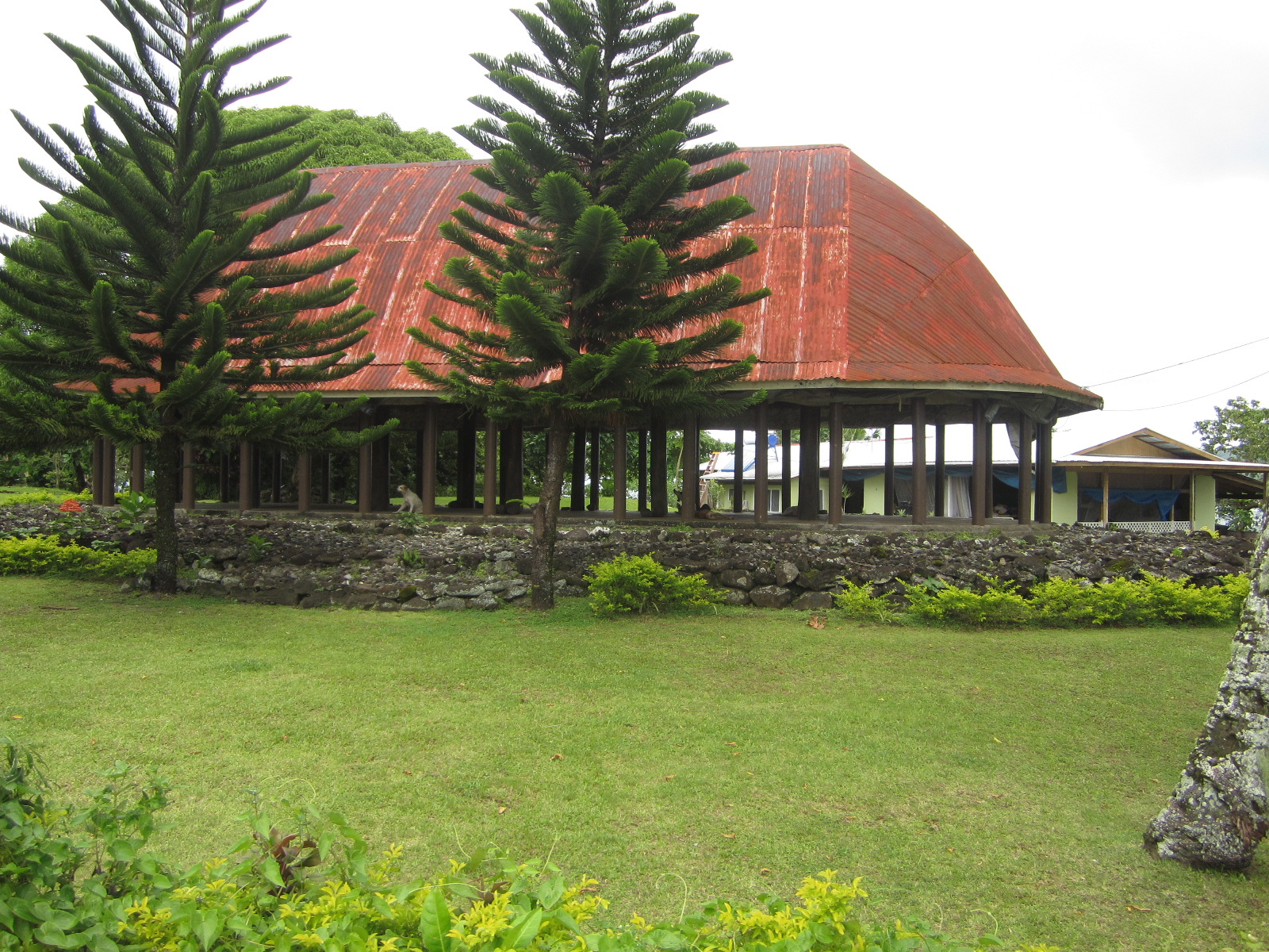 Pagopago meeting house